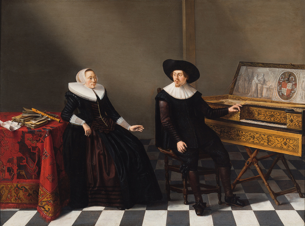 Portrait of Nicolaes Willemsz. Lossy and his wife Marritgen Pieters by Gerard Donck, 1633, oil on panel, 18.75 x 24.75 inches, Joslyn Art Museum